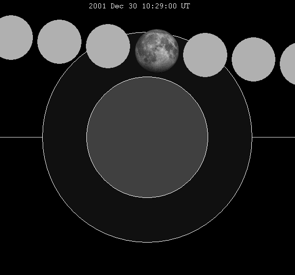 December 2001 lunar eclipse chart of moon's penumbral lunar eclipse path through the earth's shadow. thumb